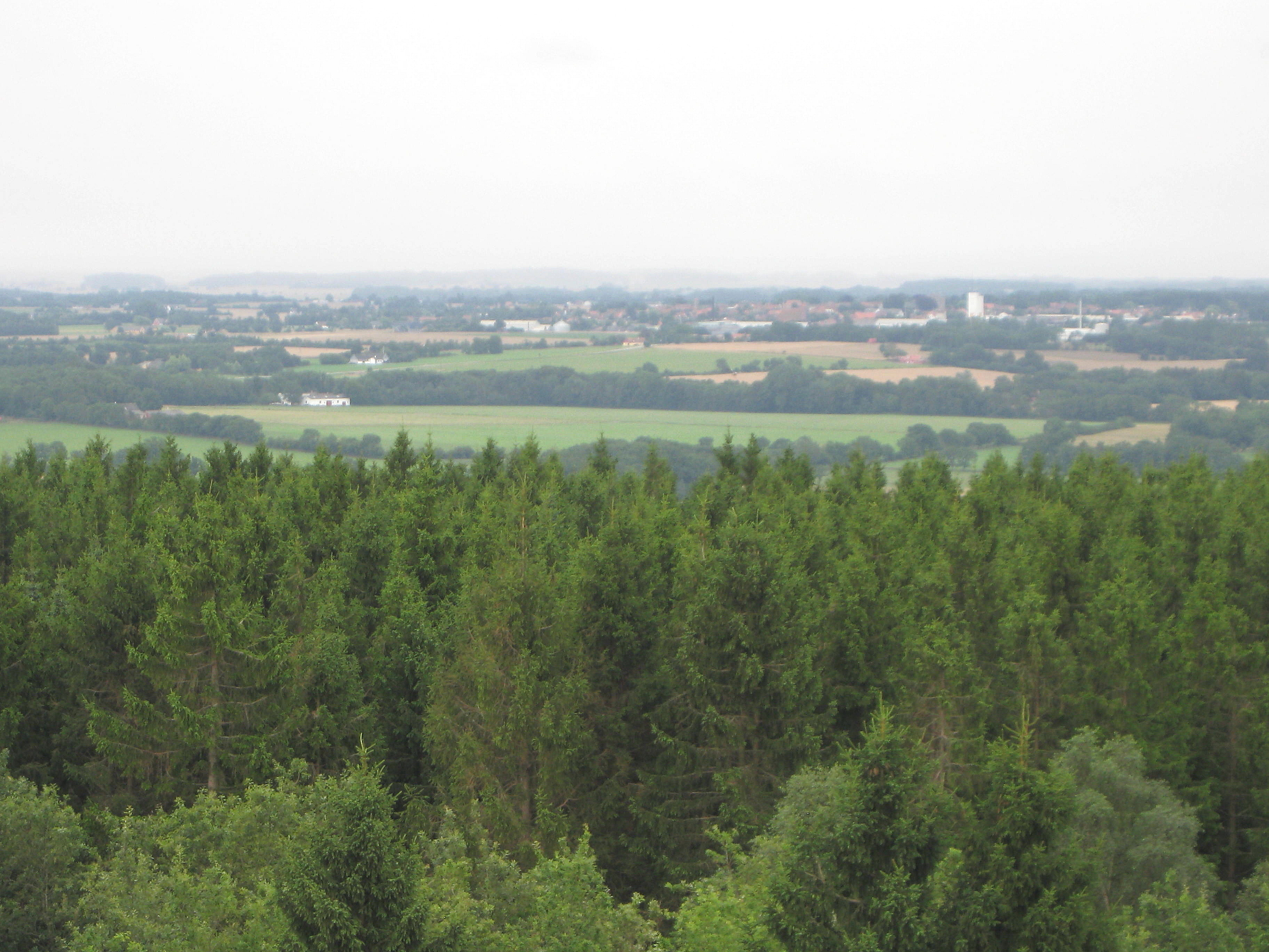 View from the tower of the hill "Rytterknægten" located on the island Bornholm in east Denmark.